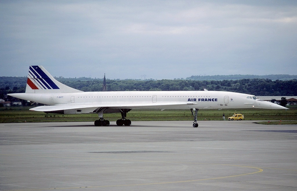 Air France Concorde F-BVFF